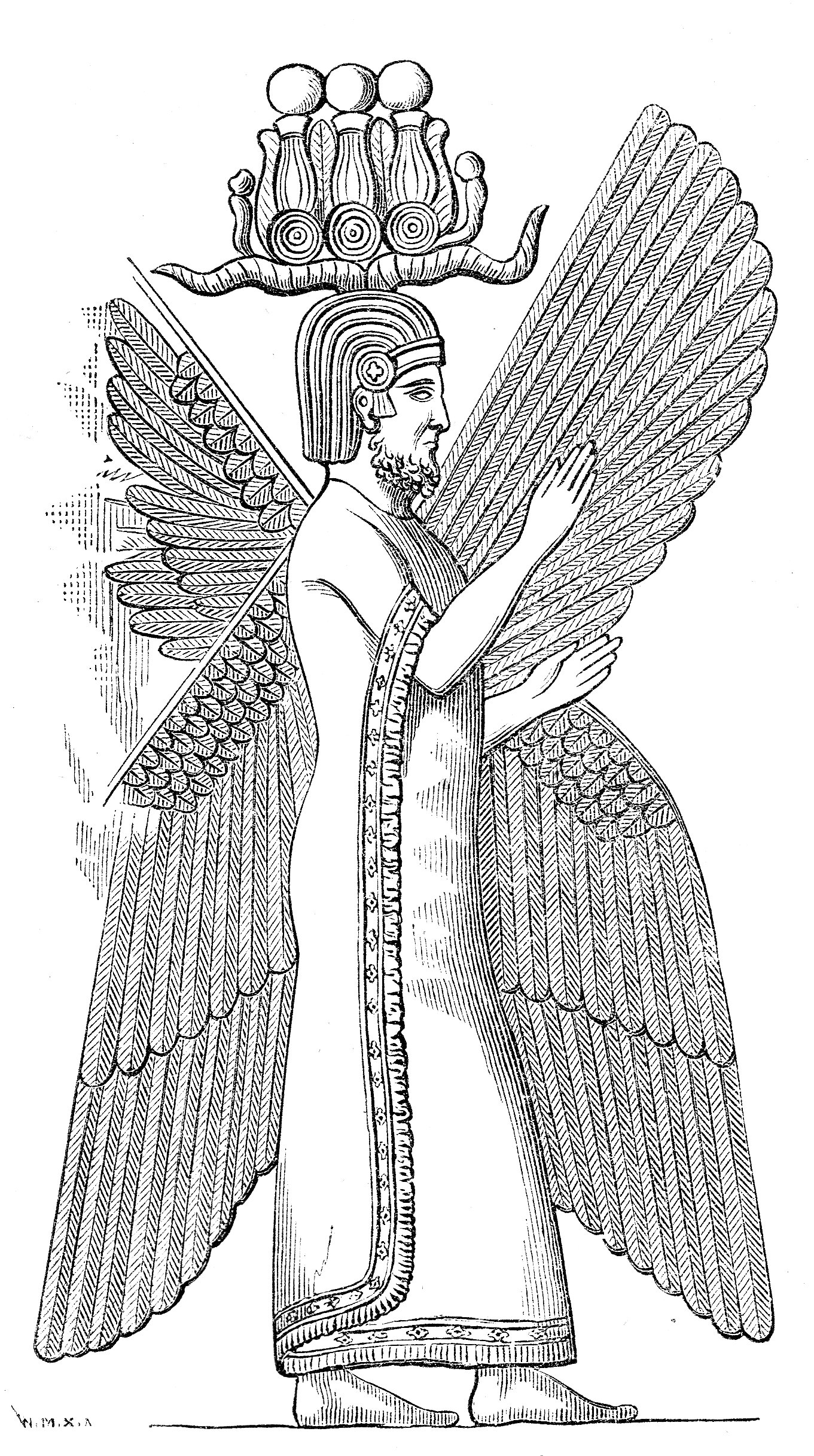 Illustration from "Illustrerad verldshistoria utgifven av E. Wallis. volume I": Relief of Cyrus.